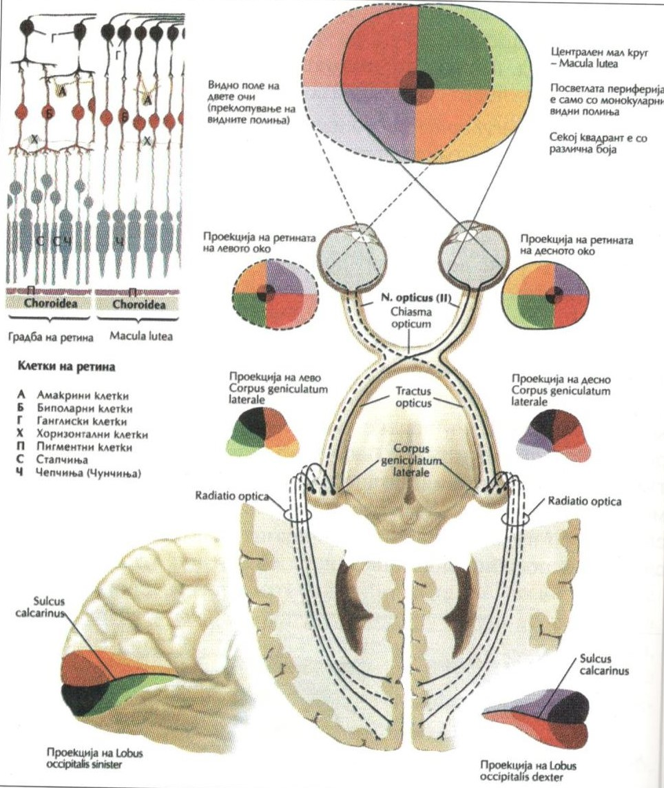 Optical way of functioning of the eyes